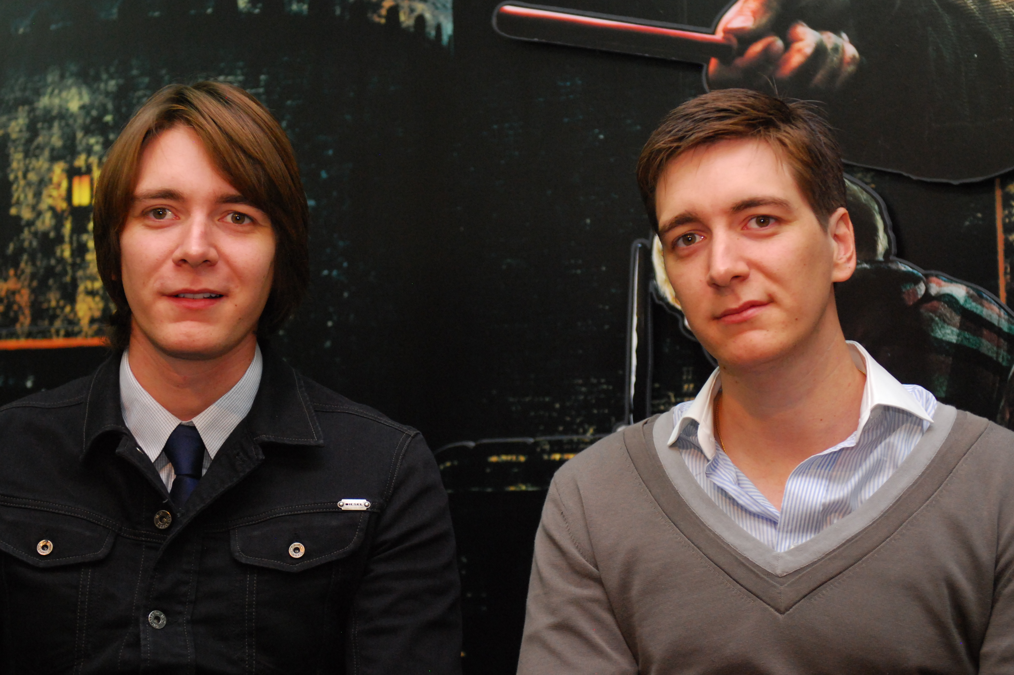 James and Oliver Phelps at Lucca Comics and Games 2011.